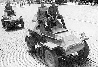 A Soviet BA-64 armored car in Romanian service